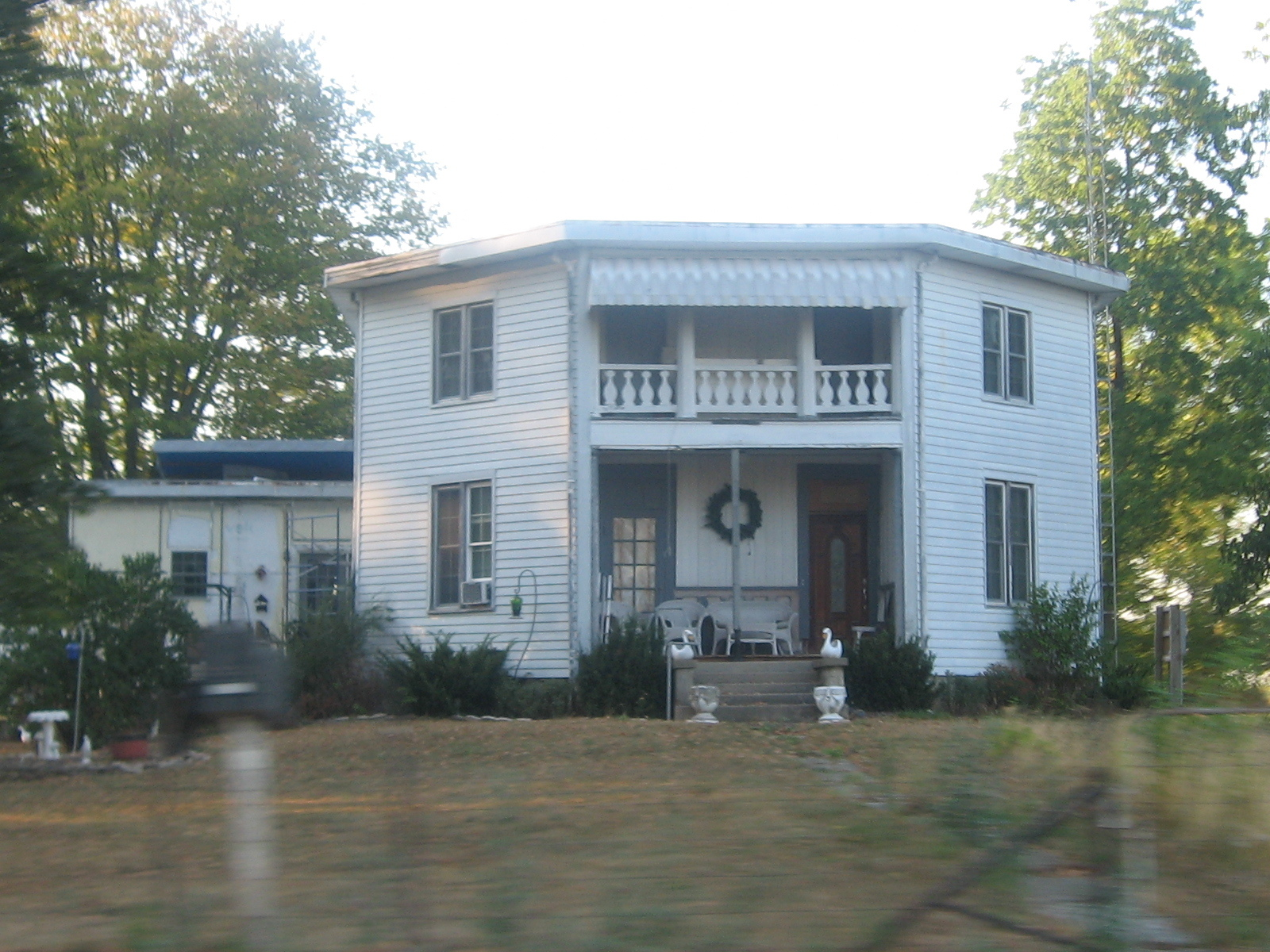 Southwestern, southern, and southeastern sides of the Hall-Crull Octagonal House, located at 3172 E900N east of Mays in Washington Township, Rush County, Indiana, United States. Built in 1855, it is listed on the National Register of Historic Places.